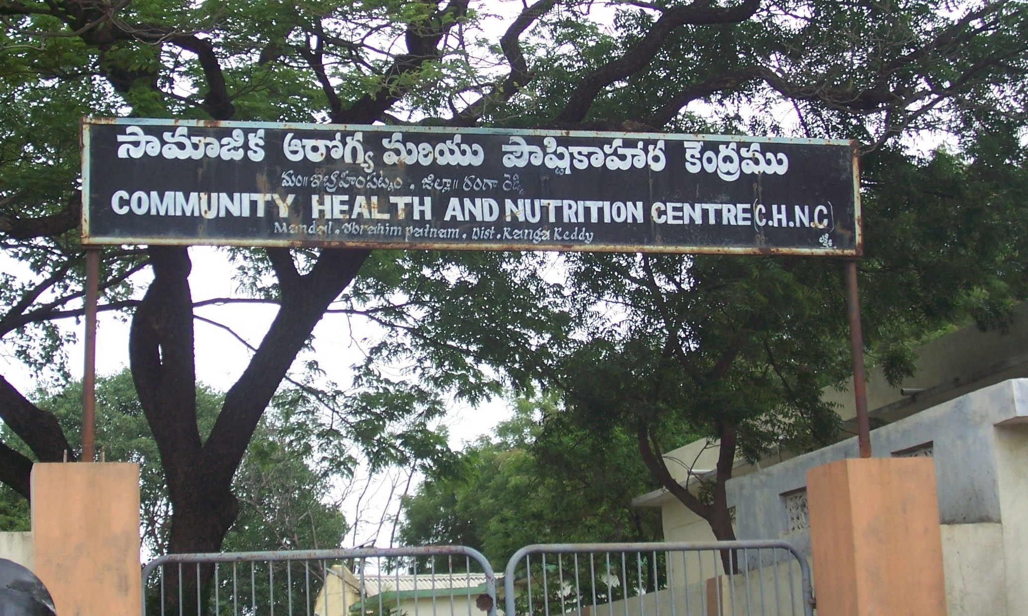 health centre